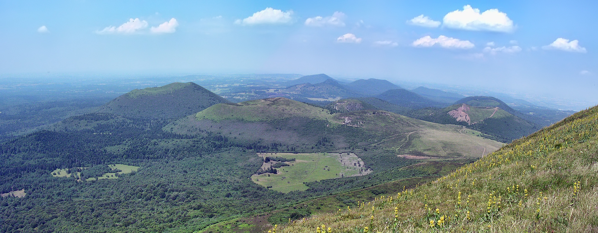 Panorama from the summit of the Puy de Dôme. The panaroma goes from the Puy de Come on the left to the Puy de Pariou on the right. Photographie prise par / Picture taken by Romary le/the 16 juillet 2005/July the 16th of 2005.